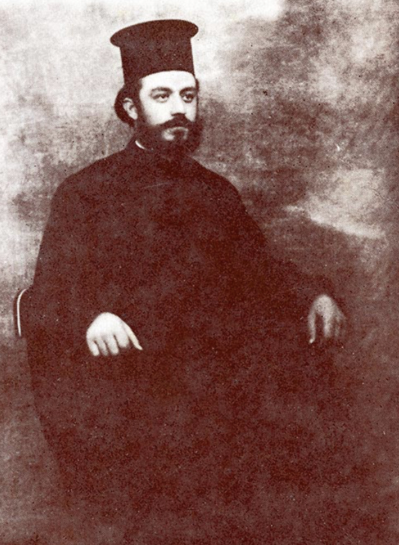 Blessed Papàs Josif Papamihali † (1912 - 1948 deceased), Albanian priest of the Byzantine rite, martyr of the Albanian Greek-Catholic Church. He was arrested, sentenced to forced labor and brutally killed for the Christian faith during the communist dictatorship in Albania. He trained at the Italo-Albanian monastic community of the Abbey of Grottaferrata, Rome.